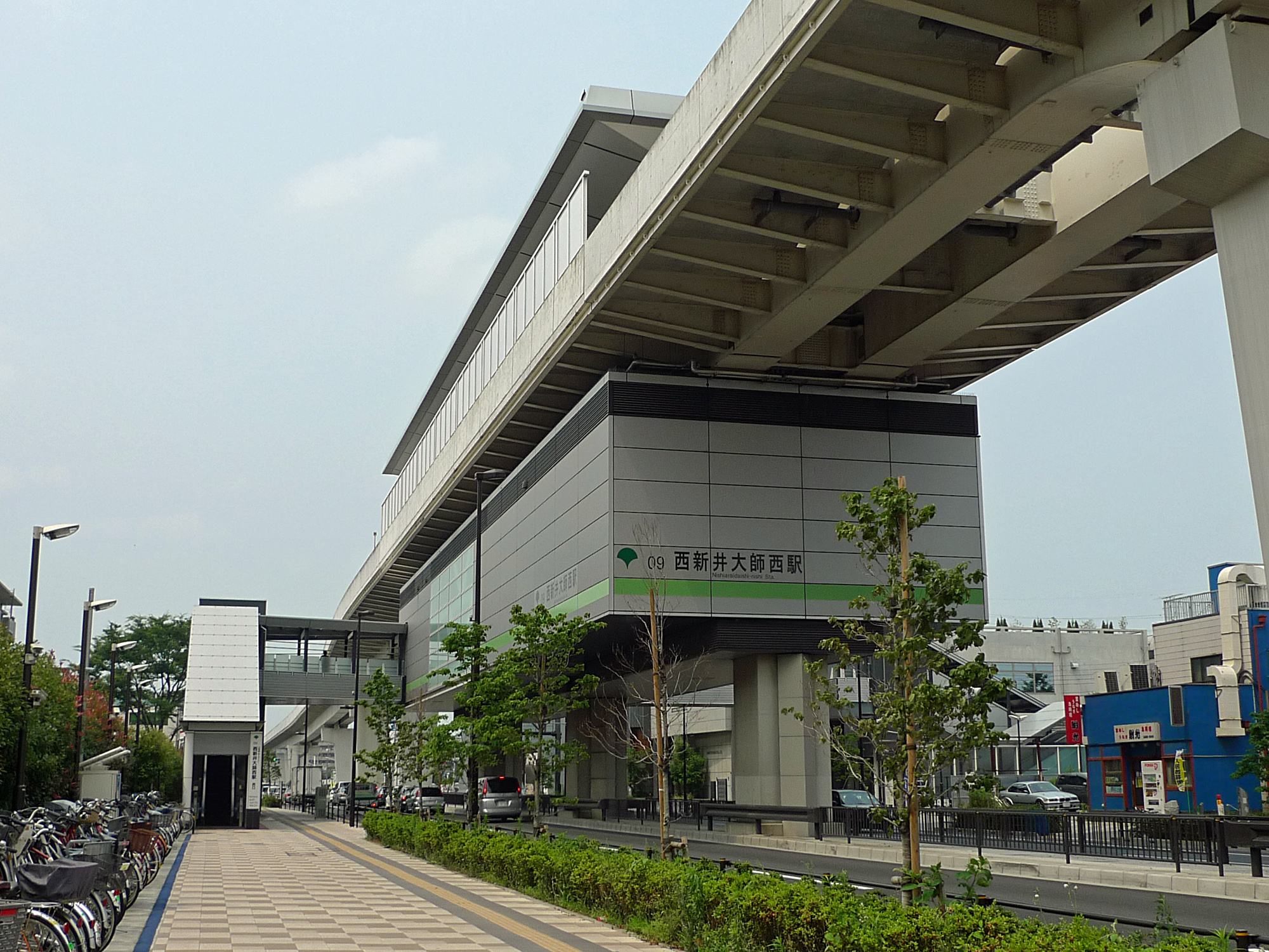 Nishiaraidaishi-nishi Station,Nippori-Toneri Liner.